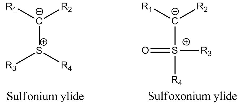 The general structures of sulfur ylides. Sulfonium ylide on the left and a sulfoxonium ylide on the right. Drawn with ChemBioDraw Ultra 12.0